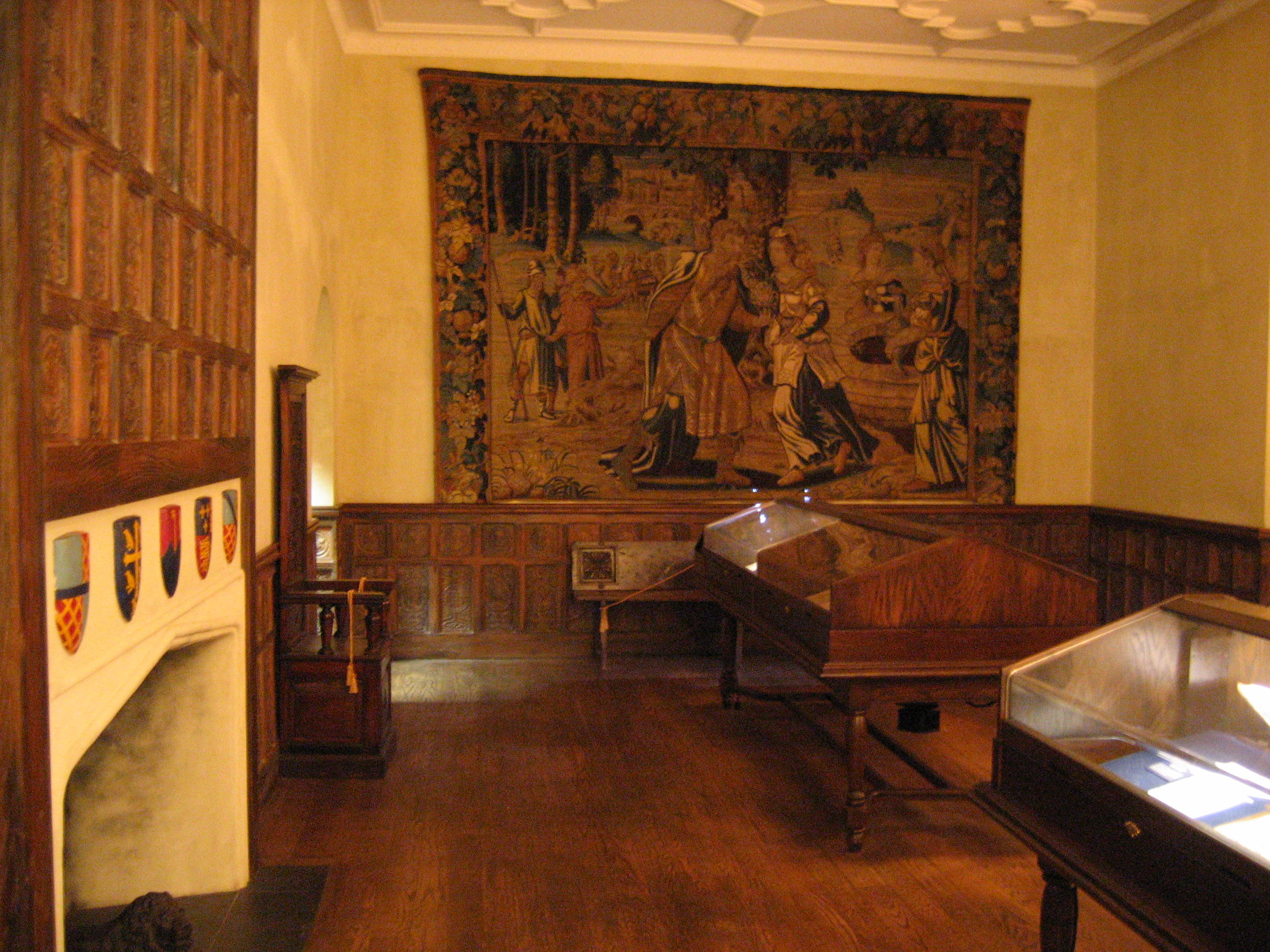 Jerusalem Chamber, Bob Jones University, Greenville, South Carolina, USA